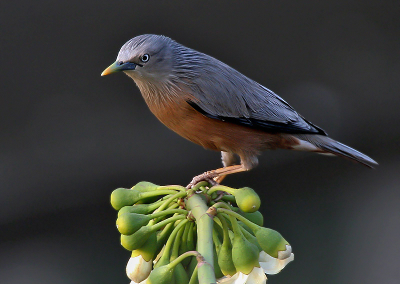 Chestnut-tailed Starling Sturnus malabaricus in Kolkata, West Bengal, India.